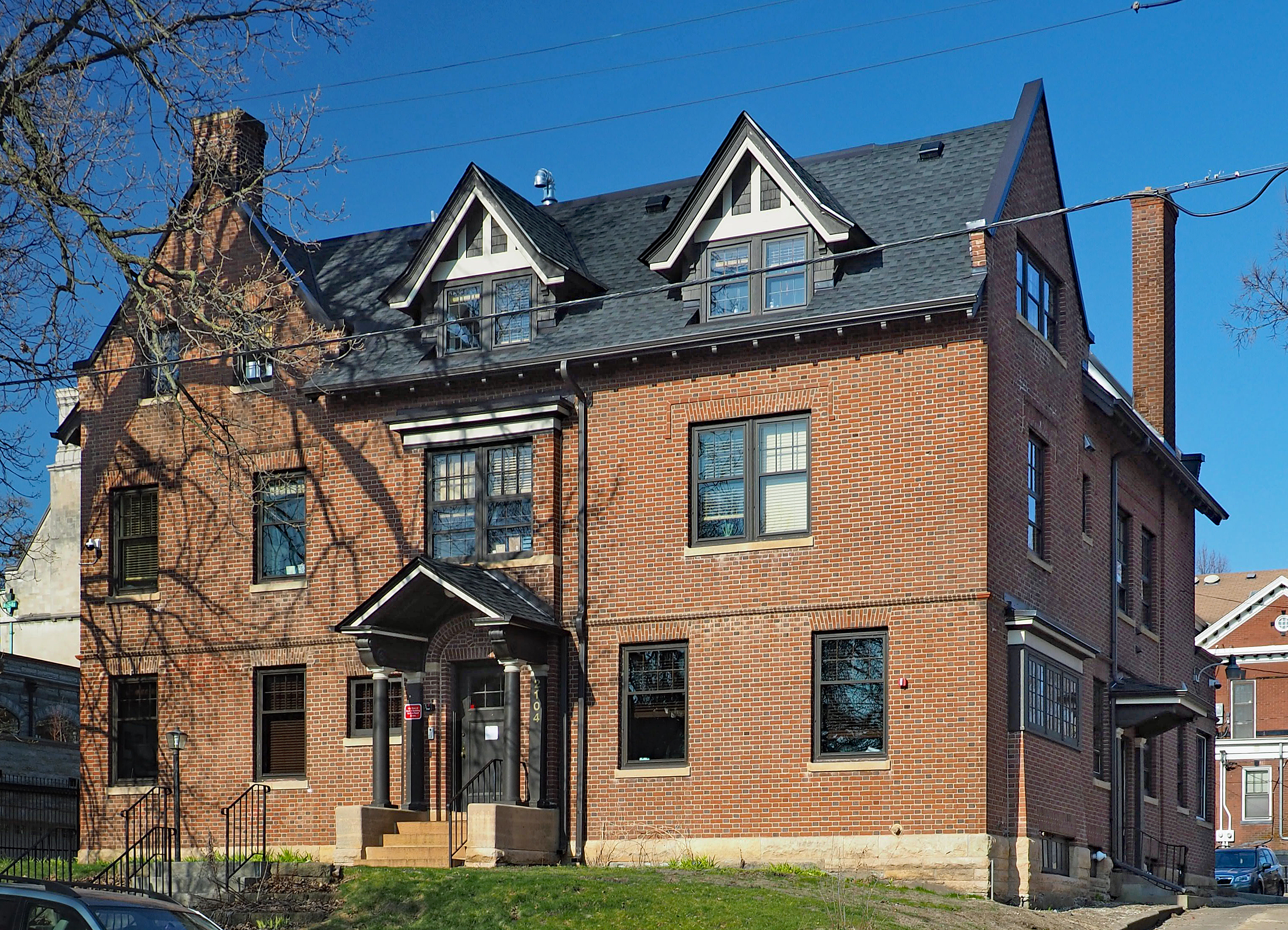 John Crosby House, 2104 Stevens Ave S, Minneapolis, Minnesota, USA. Viewed from the east-northeast. A contributing property to the Washburn–Fair Oaks Mansion District.